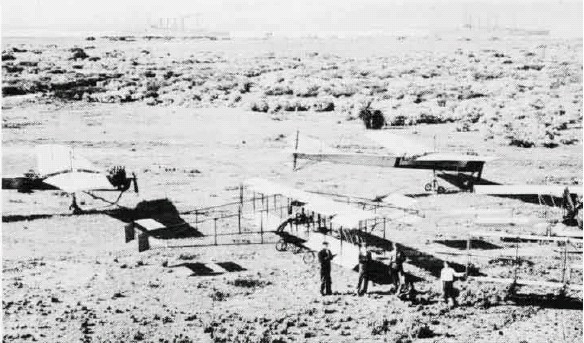 The Curtiss flying school at North Island, California (USA) in 1911. Aviator Glen Curtiss trained the first U.S. Navy and U.S. Army here. Also the first take-offs and landings on a warship were made, note the U.S. cruisers in the background. The planes are described as two Antoinette and three Curtiss planes.